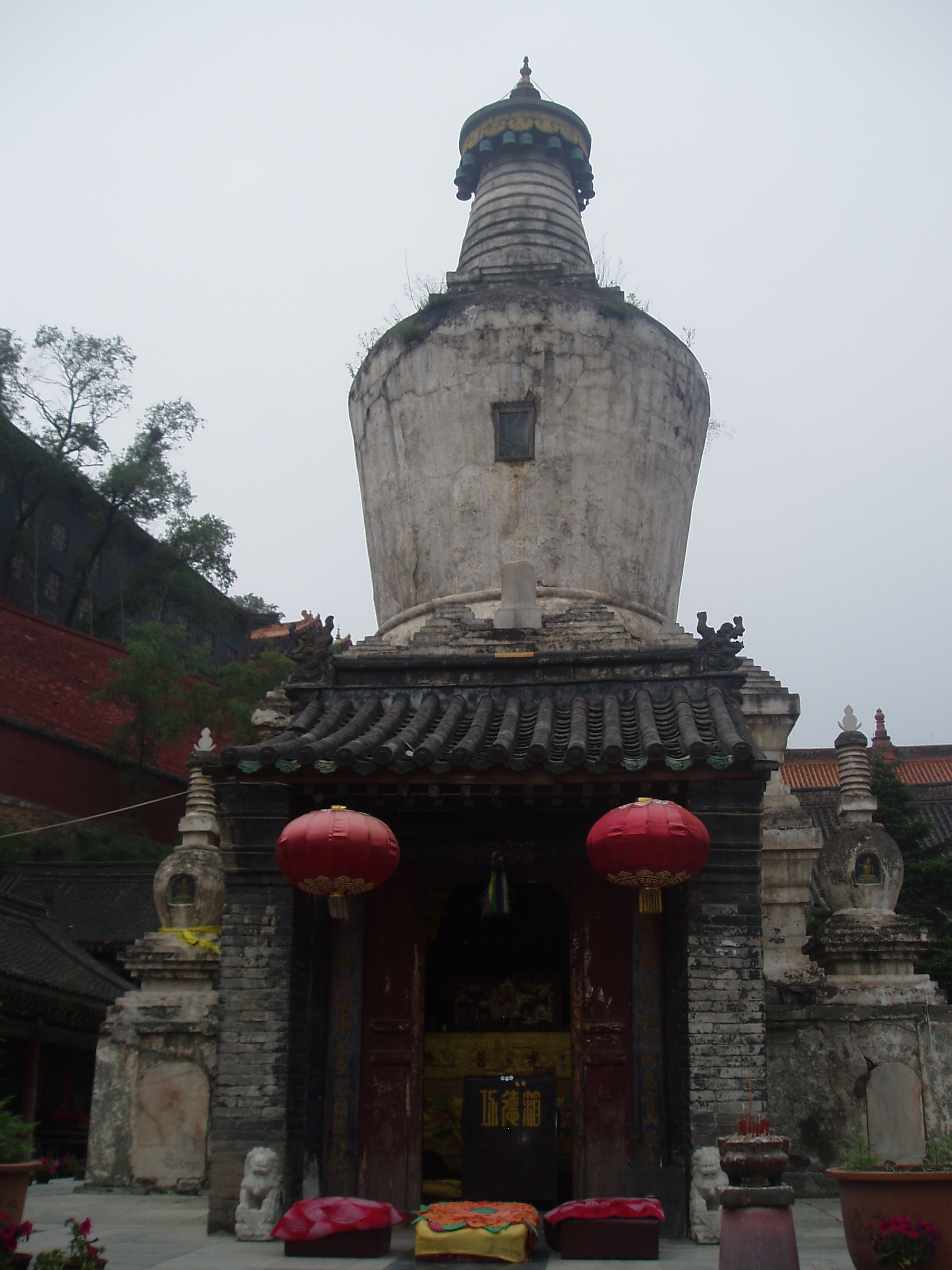 The Dagoba at the Yuanzhao Temple in Wutaishan, China